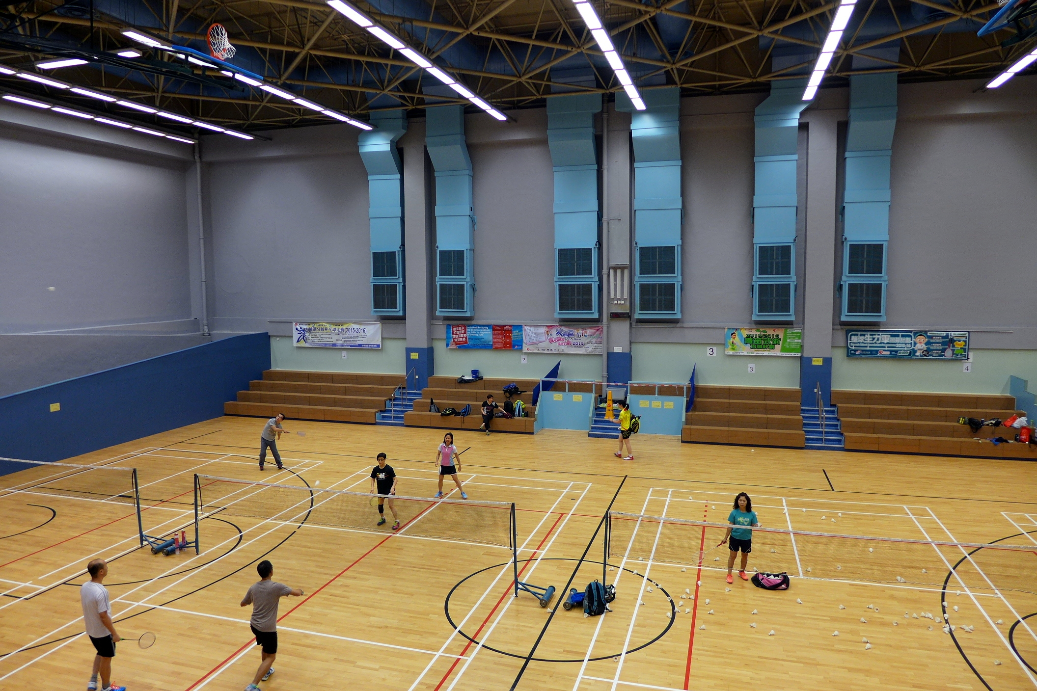 Tai Wo Sports Centre